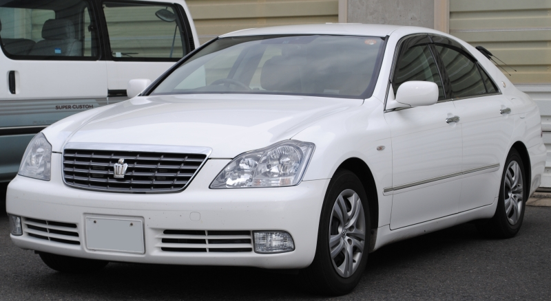 Toyota Crown unmarked car.